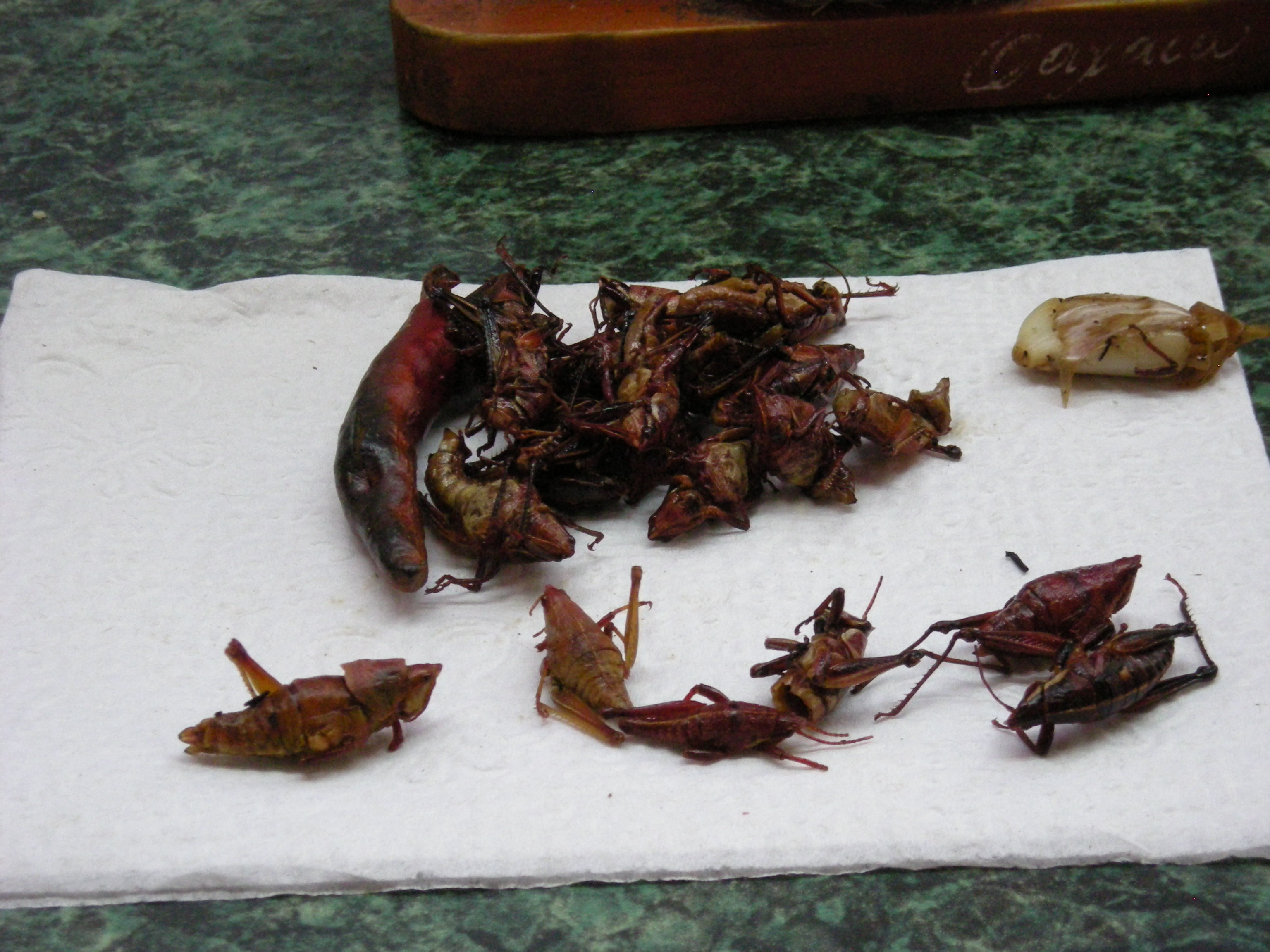 close up shot of fried chapulines (grasshoppers) in Oaxaca with a chili and a clove of garlic